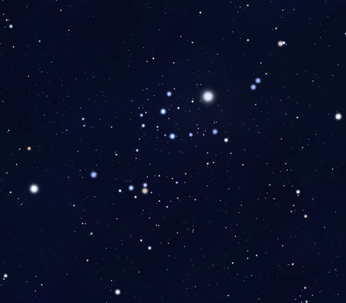 Alpha Persei Cluster, screenshot taken from Stellarium, a freeware astronomic simulation software.